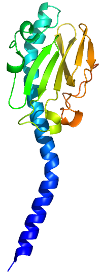 3D structure of pilin based on PDB 1AY2